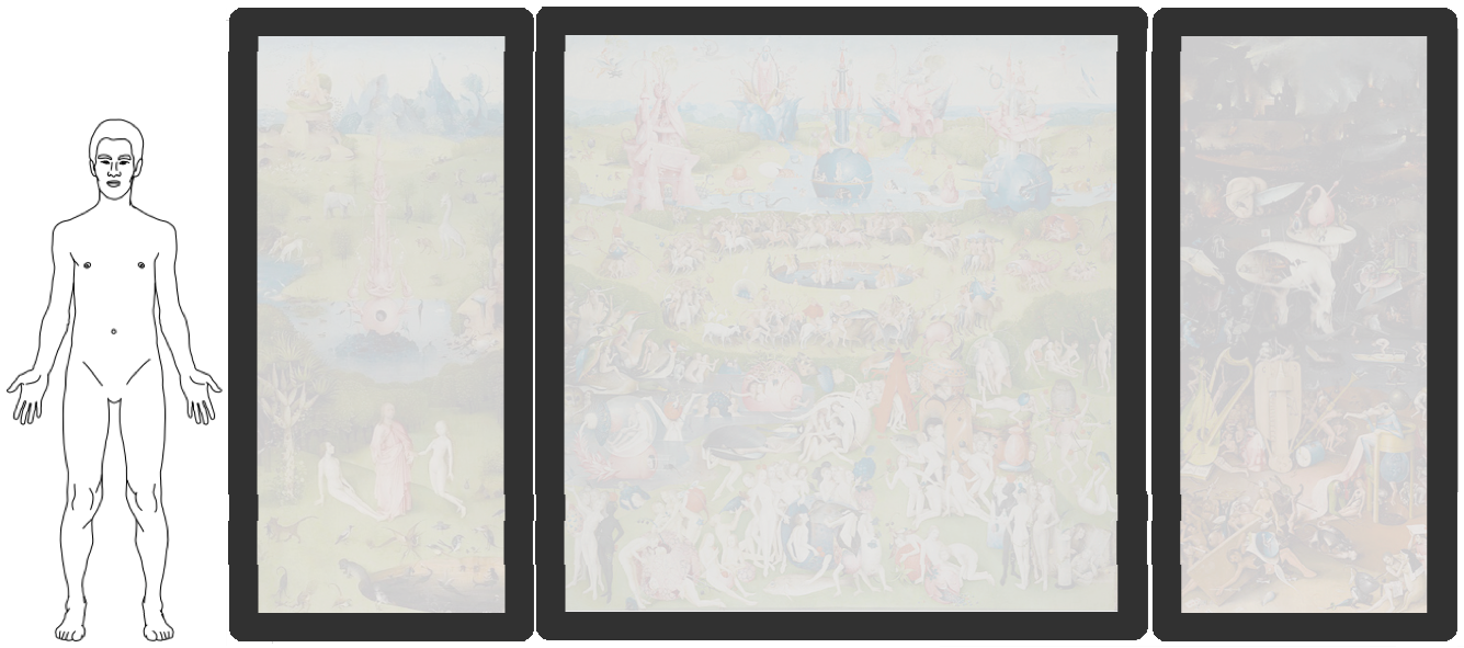 Indicative comparison between the size of an average man (178 cm) and the size of the open triptych (220 cm x 386 cm, including the frame).